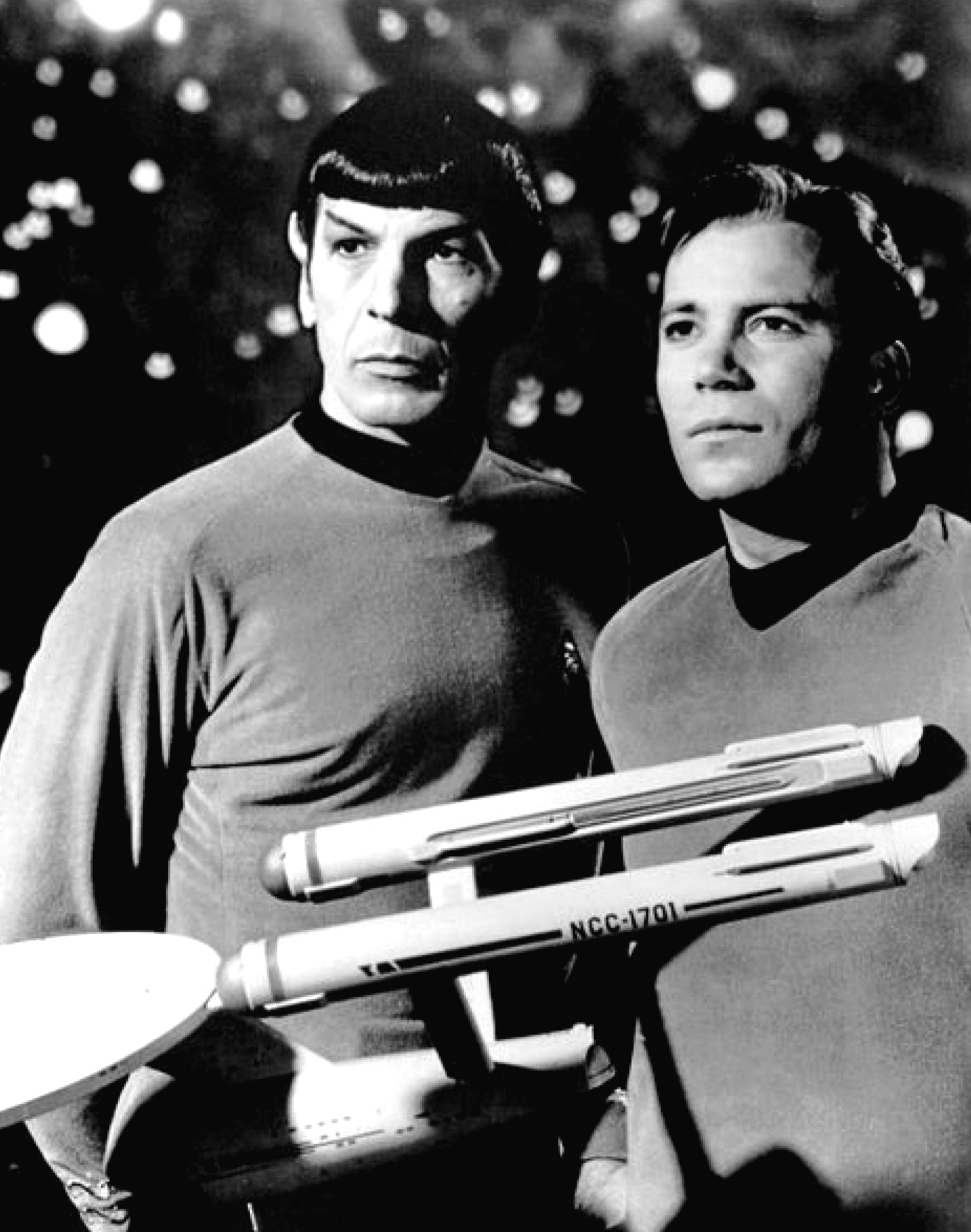 Publicity photo of Leonard Nimoy and William Shatner as Mr. Spock and Captain Kirk from the television program Star Trek.